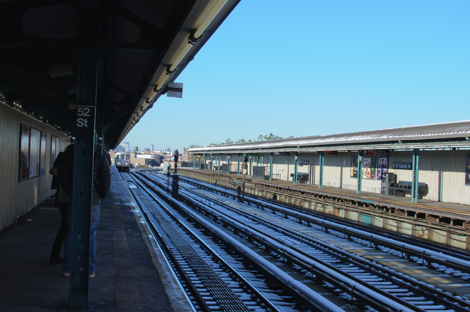 A Flushing-bound No. 7 train is pulling into the 52nd Street Station in Woodside, on the morning after the freak October snowstorm. Because of signal upgrade work taking place through this particular weekend, the inbound No. 7 is running as an express between 61st Street and Queensboro Plaza, and I am required to go outbound to 61st Street to catch the inbound express. Moreover, the section between Queensboro Plaza and Times Square is shut down for the same weekend signal work, and a transfer to the N train is necessary at Queensboro Plaza to continue my journey into Manhattan.